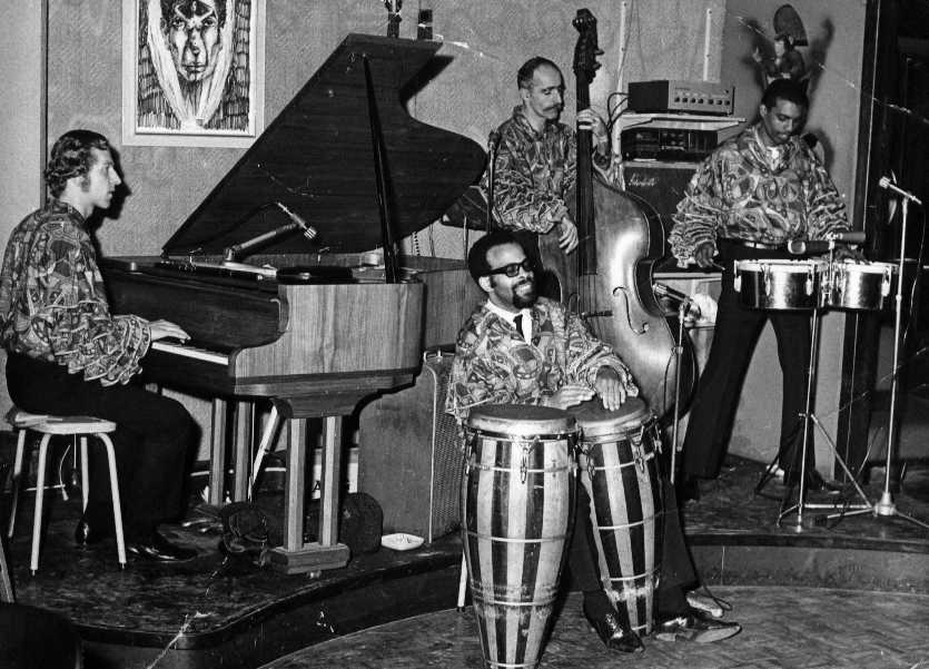 Max Woiski jr.'s band - Tropicana